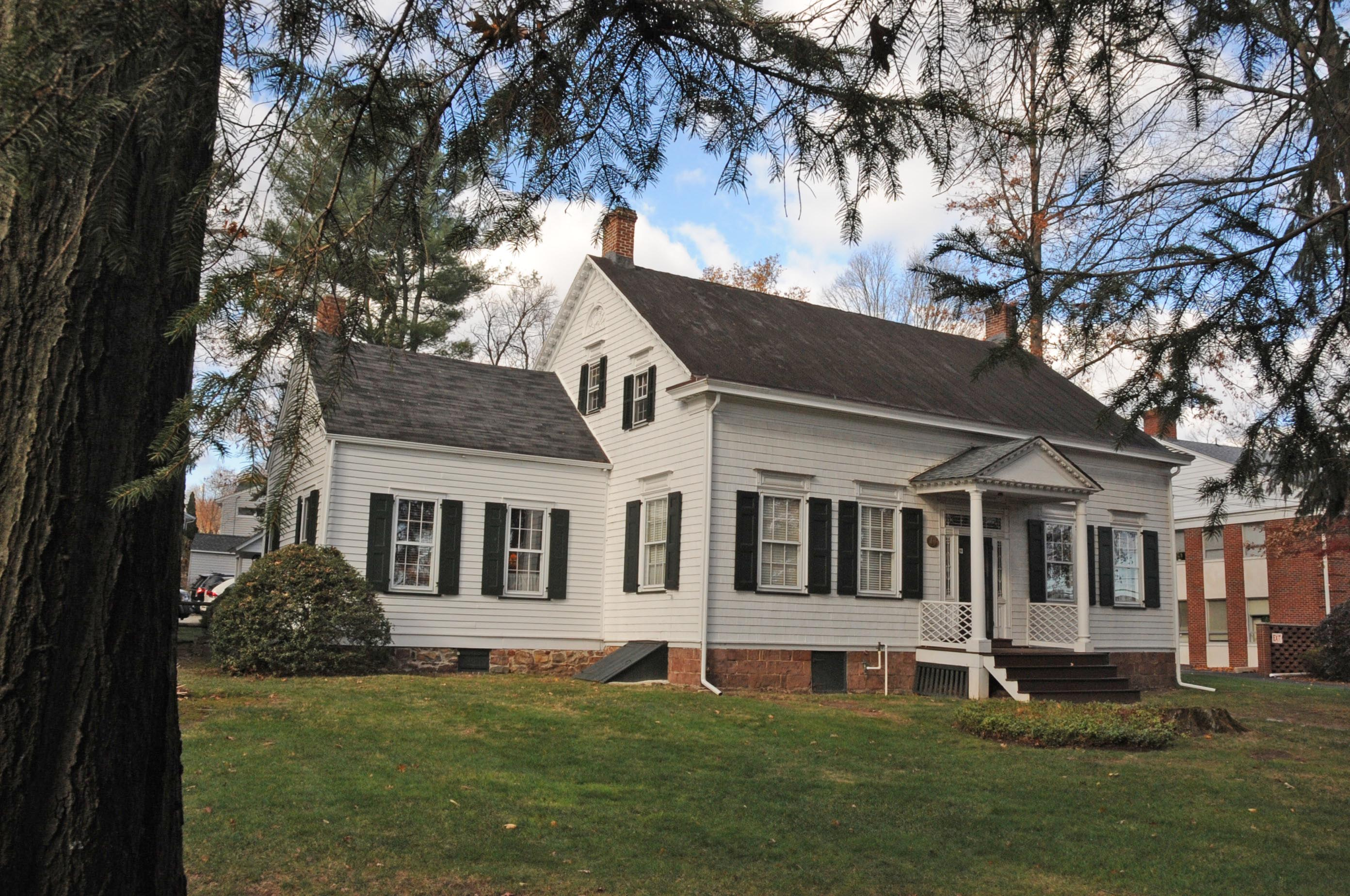 BUIILT BY J. VAN BUSKIRK ABOUT 1820. THE FEDERAL STYLE MAIN WING WAS BUILT CIRCA 1832-1834 FOR FANNING T. OAKLEY(HIS SON-IN-LAW) AND HIS WIFE HETTY VAN BUSKIRK